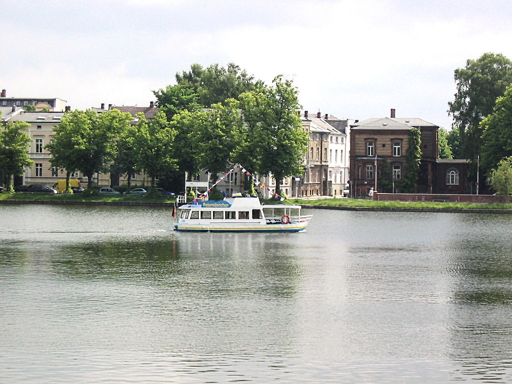 ferry "Petermännchen" on the lake Pfaffenteich in Schwerin, Germany